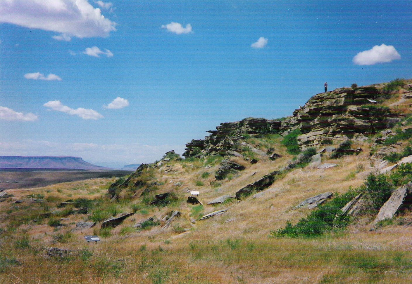 Bison (or buffalo) jump. Near Ulm, Montana. Formerly called Ulm Pishkun, now called First People's Buffalo Jump. Square Butte in background.